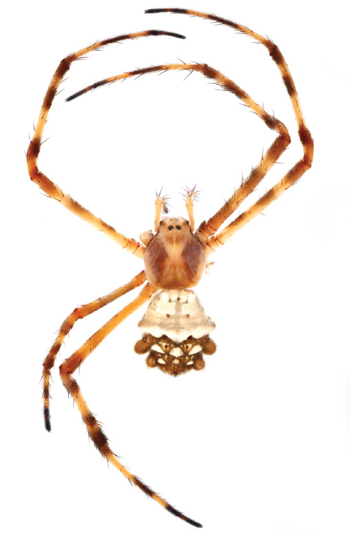 Female of Argiope butchko